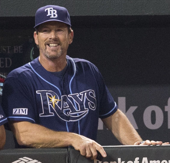 Coaches for the Tampa Bay Rays watch a game between the Rays and the Baltimore Orioles at Camden Yards in 2014. Jim Hickey is at left and George Hendrick is at right.